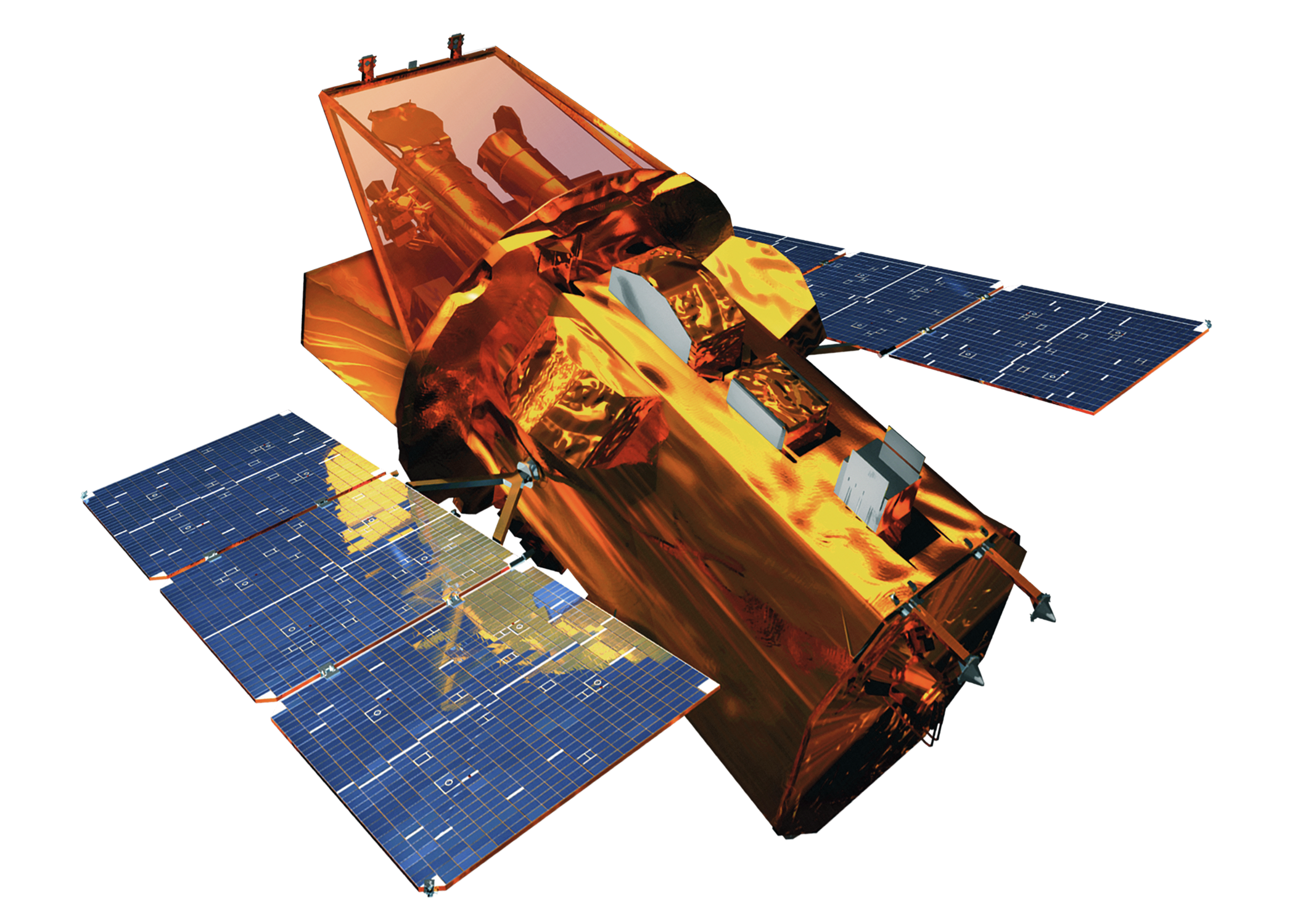 NASA's Swift Gamma Ray Burst Detecting Satellite